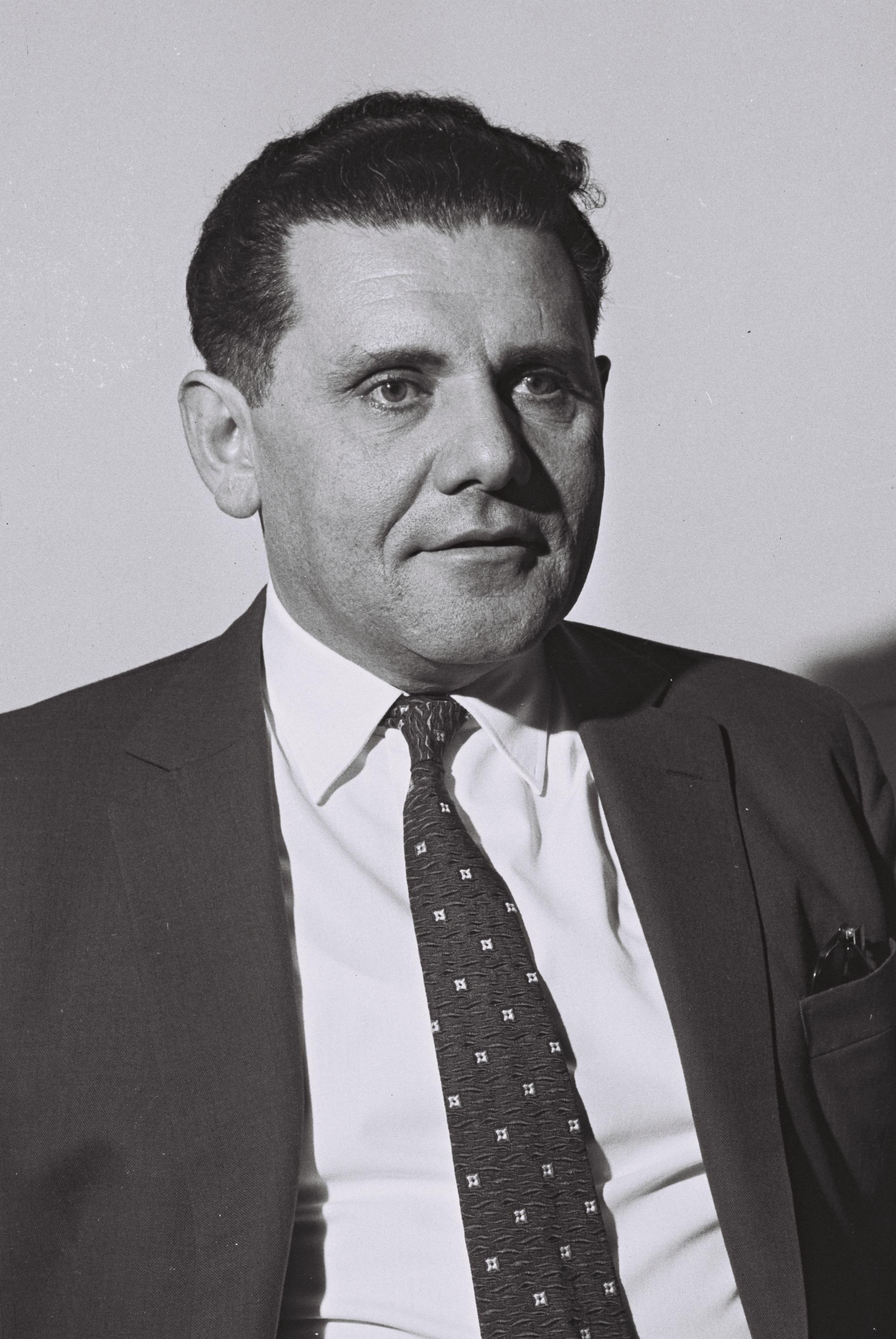 CHAIM ZADOK MEMBER OF FOURTH KNESSET, MAPAI.